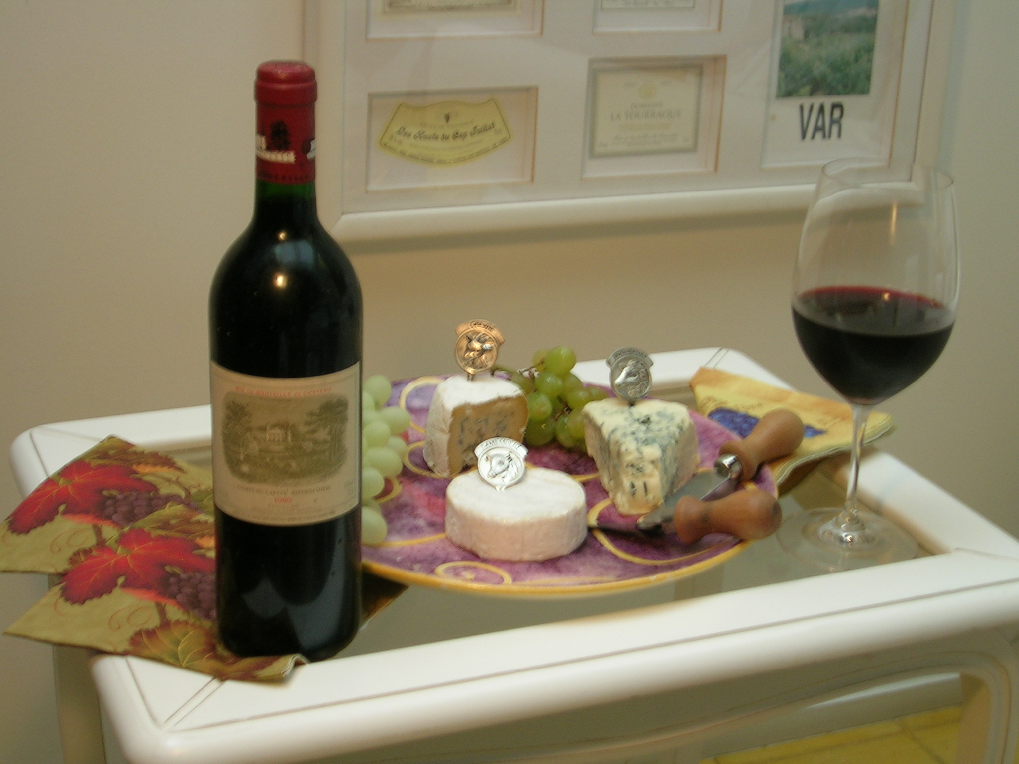 Bottle, french cheeses and glass of Château Lafite Rothschild